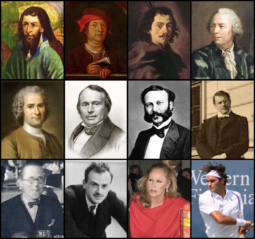 Notable Swiss: Nicholas of Flüe - File:Nicholas-Flue.jpg Paracelsus - File:Paracelsus01.jpg Francesco Borromini - File:Borromini.jpg Leonhard Euler - File:Leonhard Euler 2.jpg Jean-Jacques Rousseau - File:Rousseau.jpg Louis Agassiz - File:Louis Agassiz-2.jpg Henry Dunant - File:Henry Dunant-young.jpg Carl Jung - File:Jung 1910-rotated.jpg Le Corbusier - File:Lallerstedt Corbusier Tengbom 1933.jpg Paul Dirac - File:Dirac 3.jpg Ursula Andress - File:Ursula Andress and London based Swiss star chef Anton Mosimann at Somerset House in 2004.JPG Roger Federer - File:Federer Cincinnati (2007).jpg